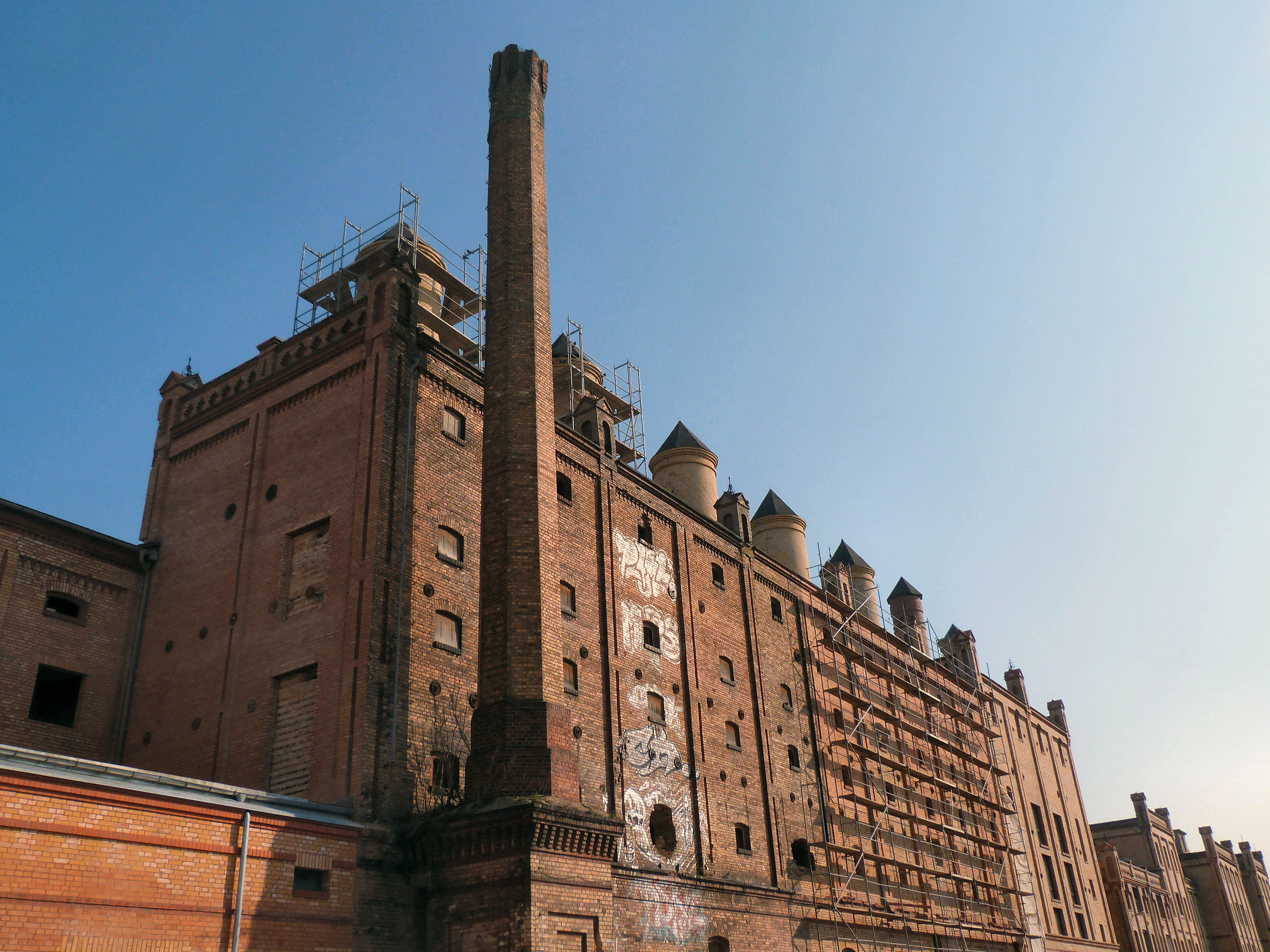 Former factory Hallesche Malzfabrik Reinicke & Co., Merseburger Strasse, Halle (Saale)